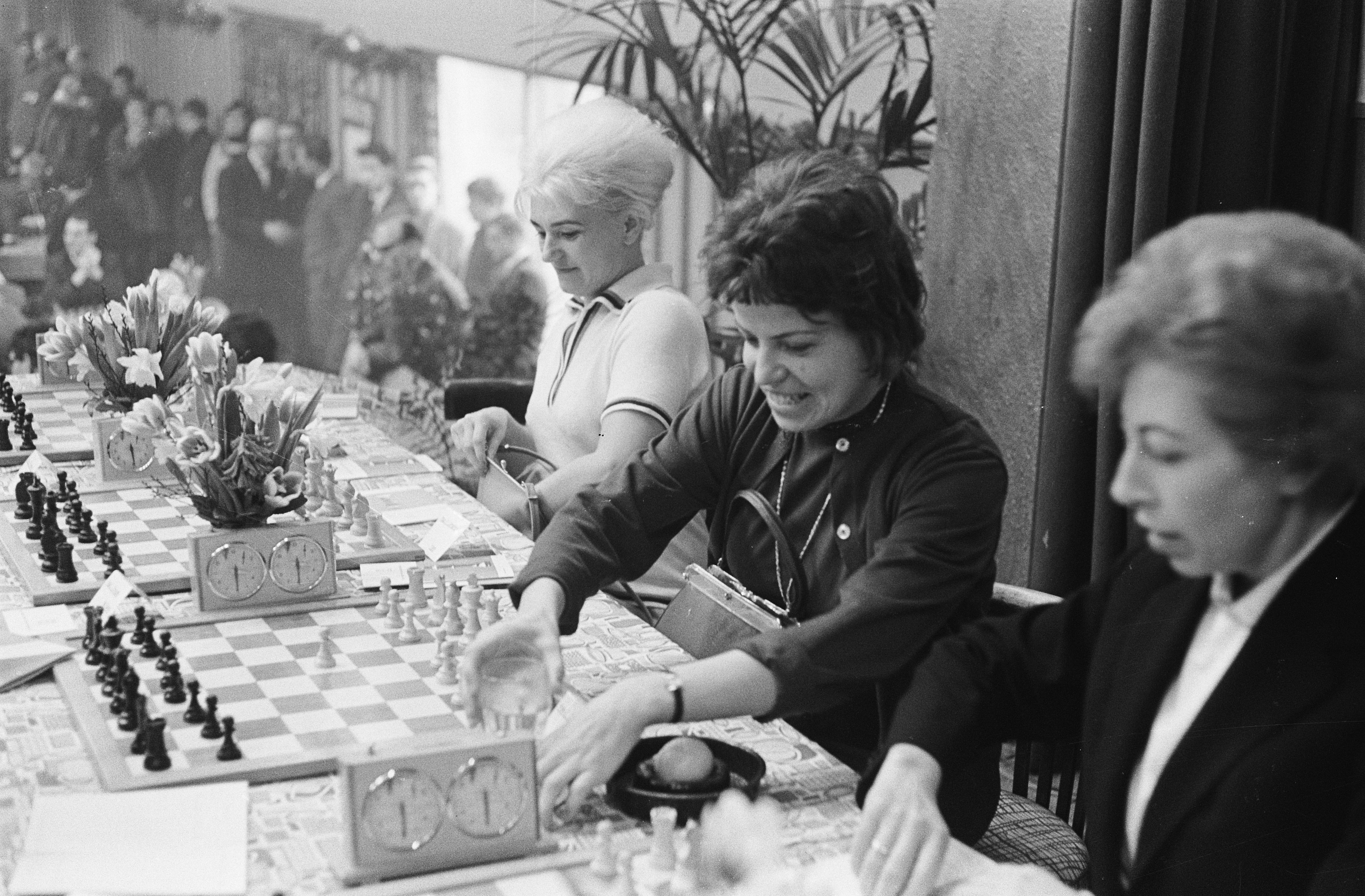 Hoogovens tournament 1964. Left to right: Litmanowiczowa, Zatulovskaya, mrs. XX